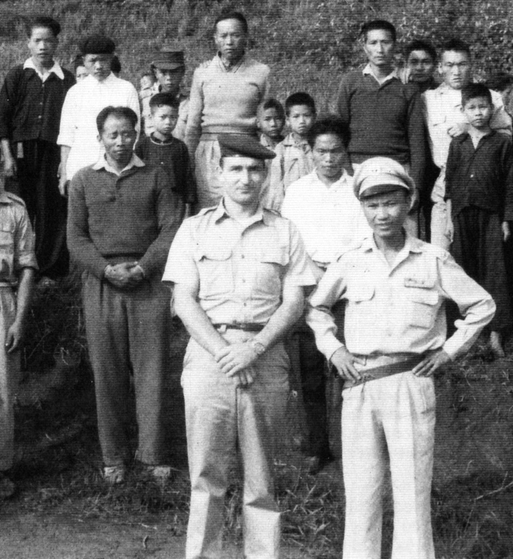 The FAL training Center at Khang Khai, Laos